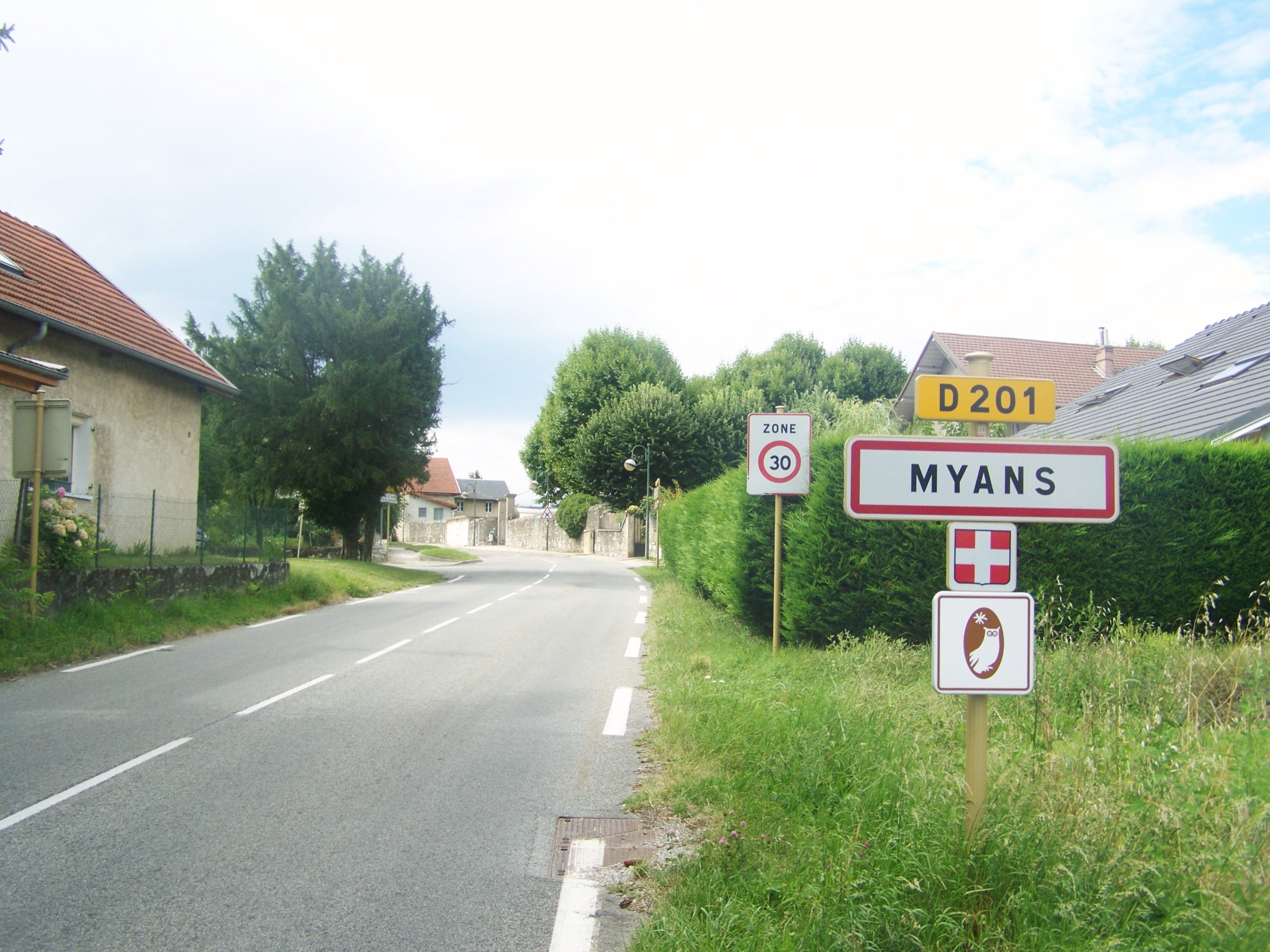 Sign welcoming to the village of Myans near Chambéry in Savoie, France.